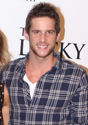 Actor Dan Ewing at The Lucky One World Premiere at Bondi Juction, Sydney, Australia